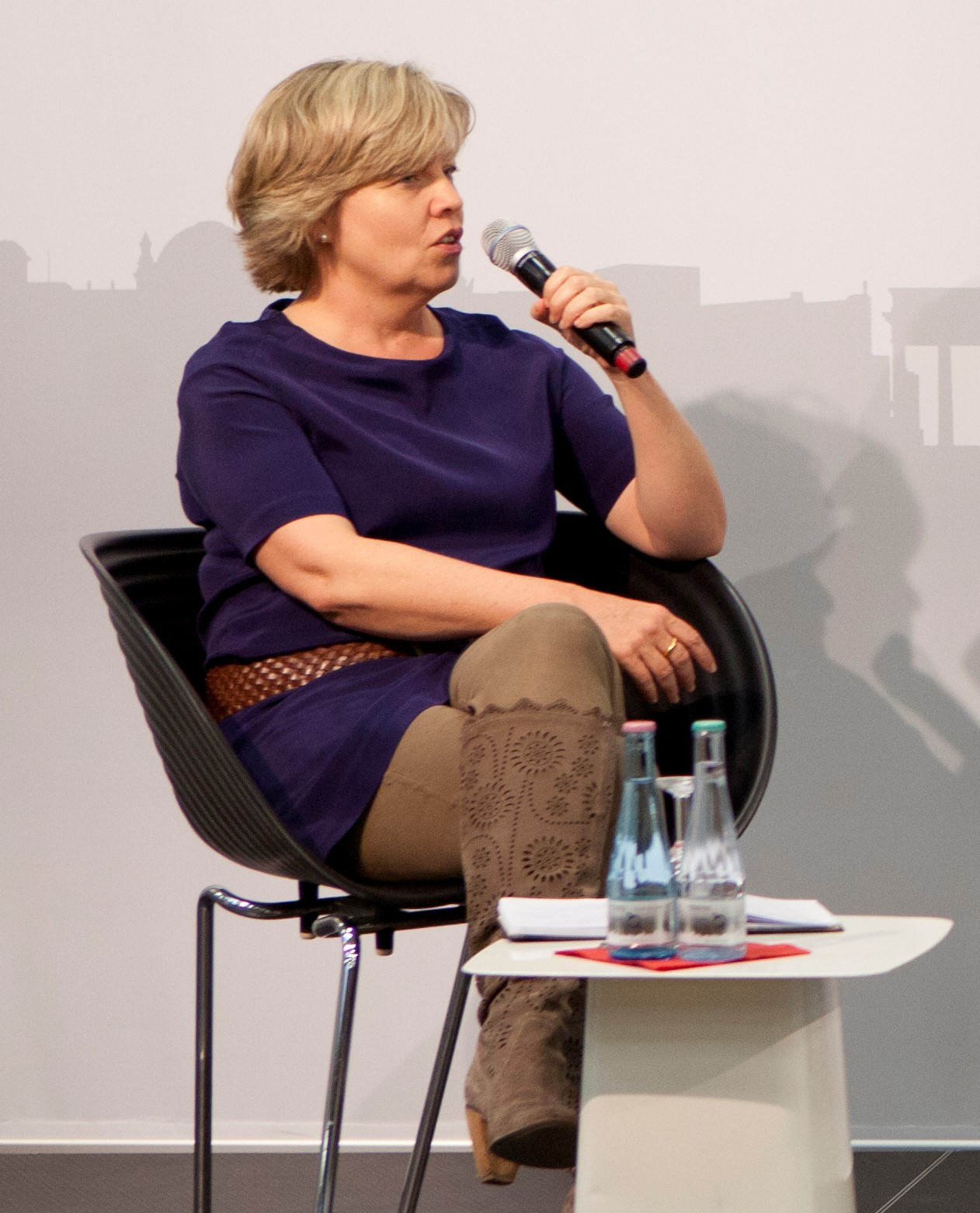 Andrea Römmele at Hertie School Berlin, April 2016 (crop)